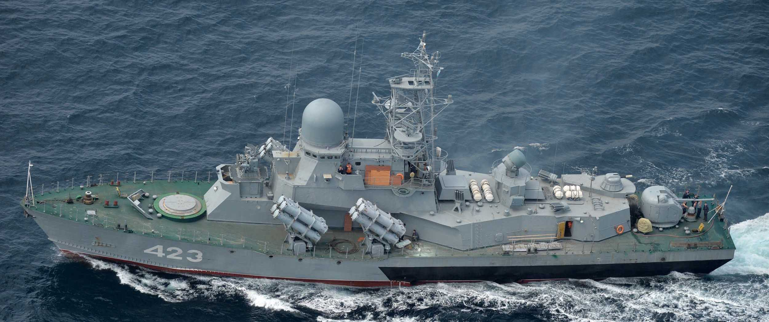 Russian Nanuchka-III-class corvette Smerch following upgrades, with 4× quad 3M24 Uran (SS-N-25 'Switchblade') anti-ship cruise missile (AShM) launchers. This ship was photographed by a Japanese Maritime Self-Defense Force 2nd Air Group P-3C Orion aircraft while sailing westward towards the Sea of Japan, 250 km east-northeast of the Sōya Strait, about 1:00 pm on Monday, July 15, 2019. The photograph was published one day later, July 16 2019.